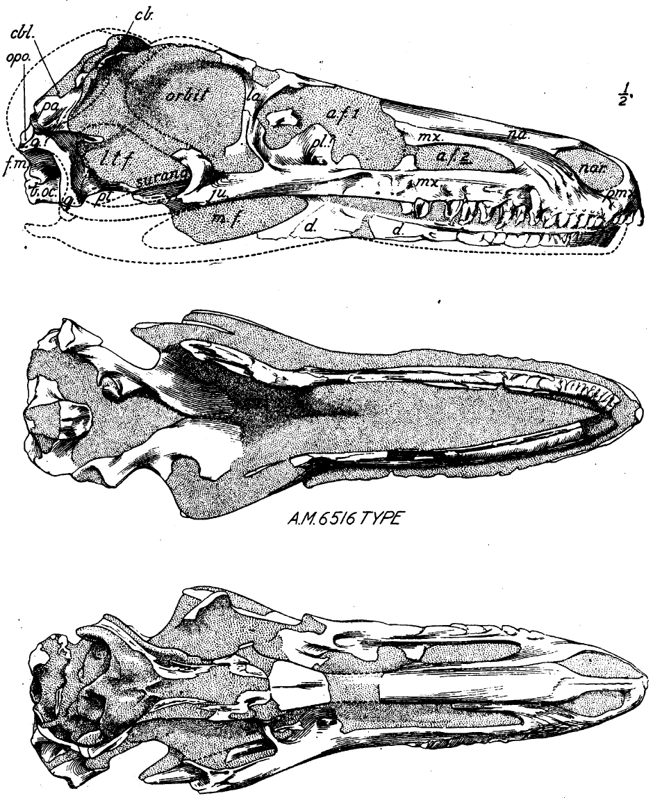 Saurornithoides holotype skull AMNH 6516 seen from the right, below, and above.